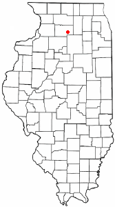 Category:Illinois city locator maps